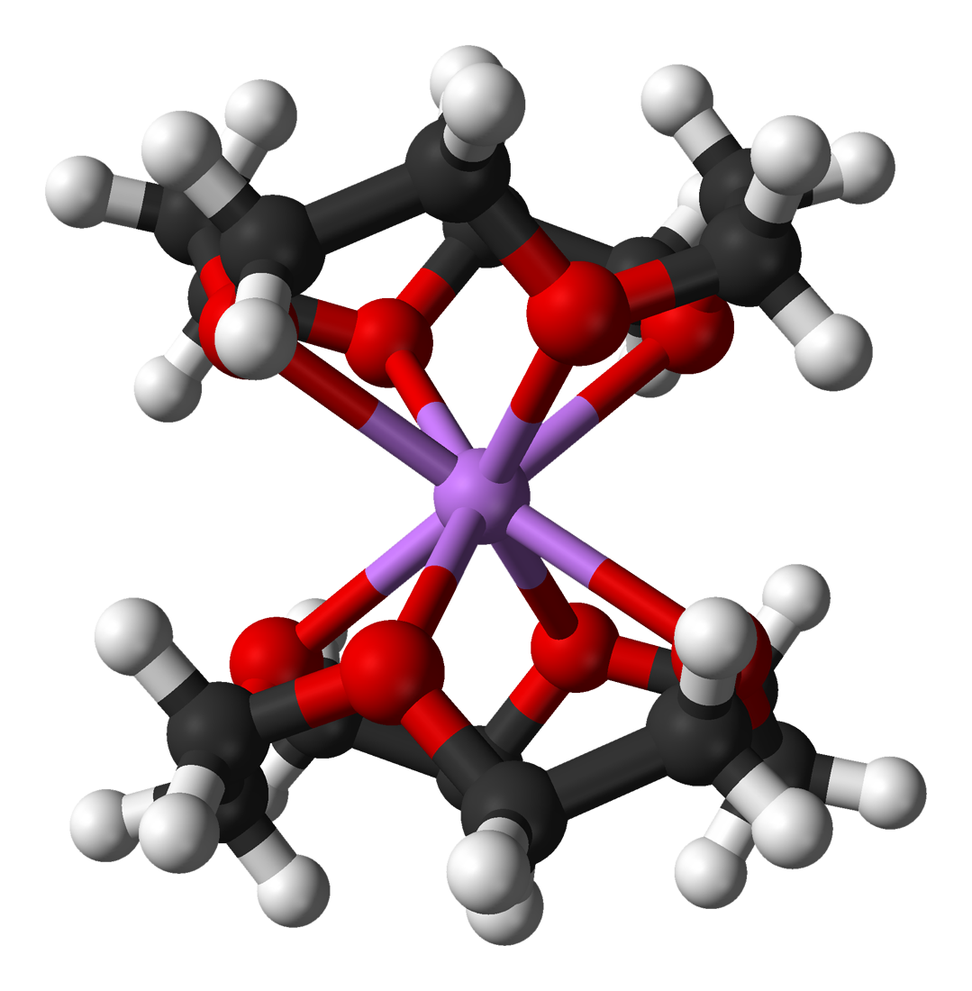 Ball-and-stick model of the bis(12-crown-4)lithium cation, [Li(C8H16O4)2]+, as found in the crystal structure. X-ray crystallographic data from Acta Cryst. (2007). E63, m41-m42. Model constructed in CrystalMaker 8.1. Image generated in Accelrys DS Visualizer.